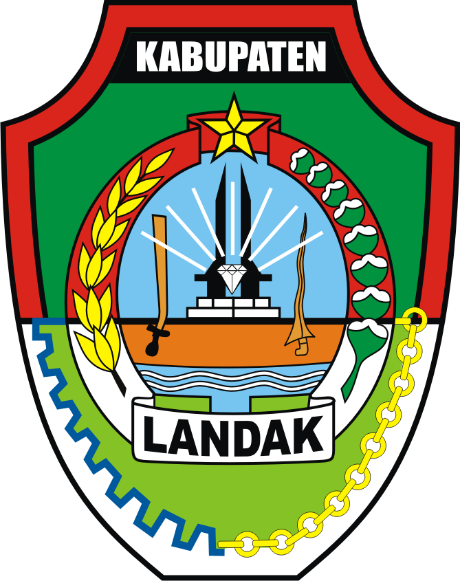 Lambang (Coat of Arms) of Kabupaten (Regency) Landak, provinsi Kalimantan Barat (West Kalimantan Province (Borneo)), Indonesia